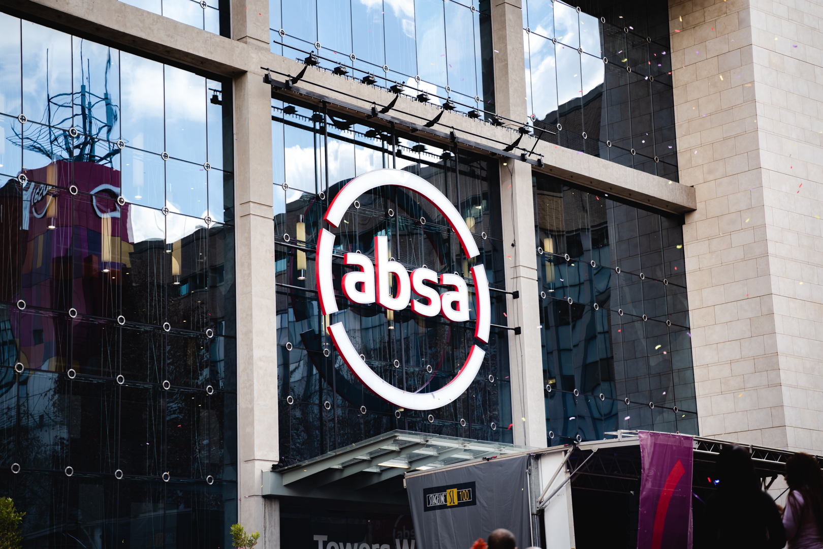 Absa Group logo on exterior of head office building in Johannesburg, South Africa